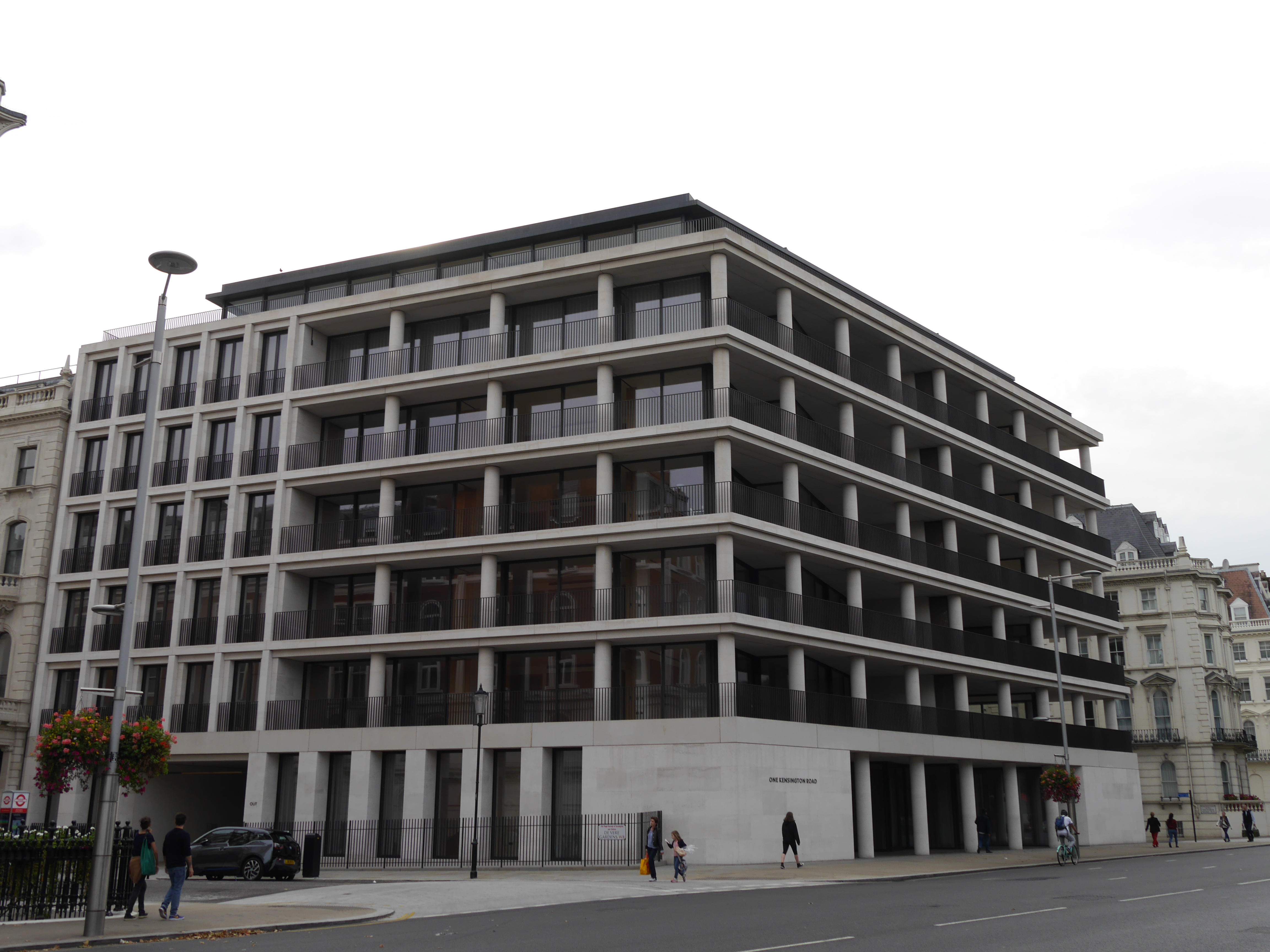 One Kensington Gardens, September 2016